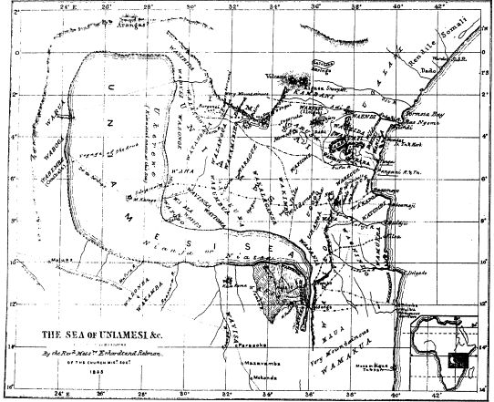 Map of the hypothetical Uniamesi sea in East Africa